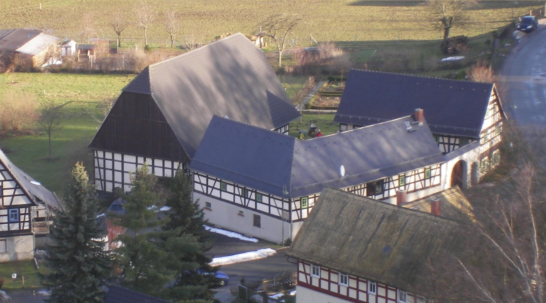 Timber framing estate in Posterstein near Gera/Thuringia